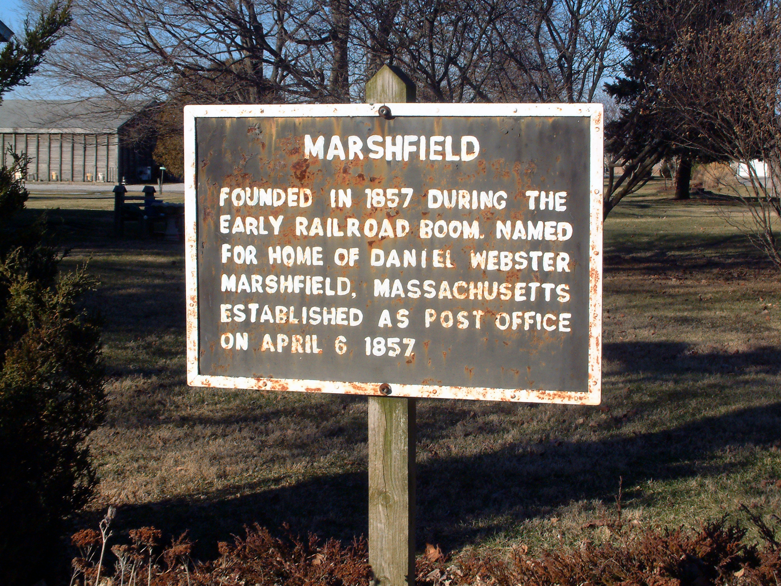 The historical marker in the town of Marshfield, Indiana, on the north side of State Avenue between Ohio Street and Kent Street. It reads: Marshfield Founded in 1857 during the early railroad boom. Named for home of Daniel Webster, Marshfield, Massachusetts. Established as post office on April 6, 1857.